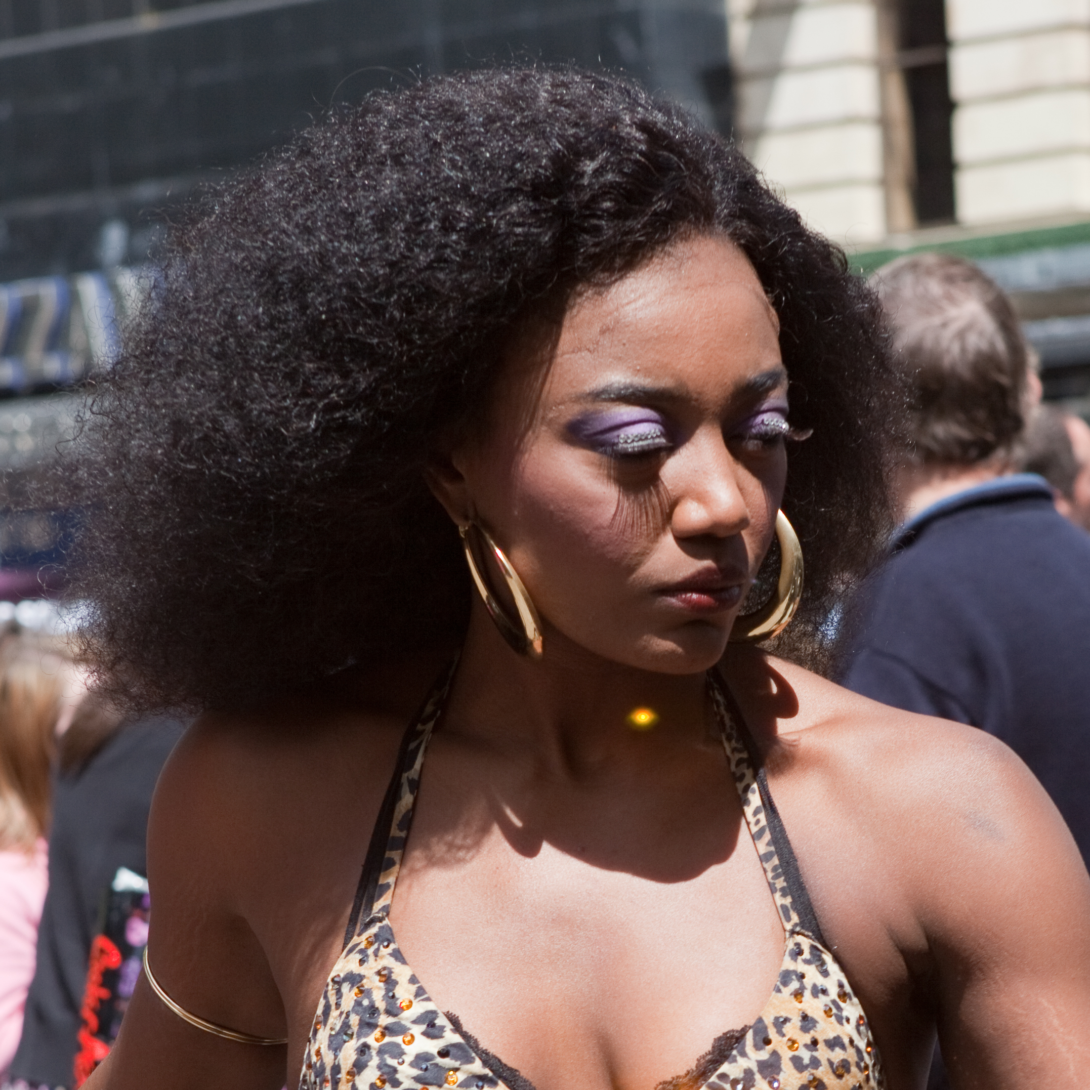 Patina Miller, following her performance as Deloris Van Cartier from the musical Sister Act, at West End Live 2010.